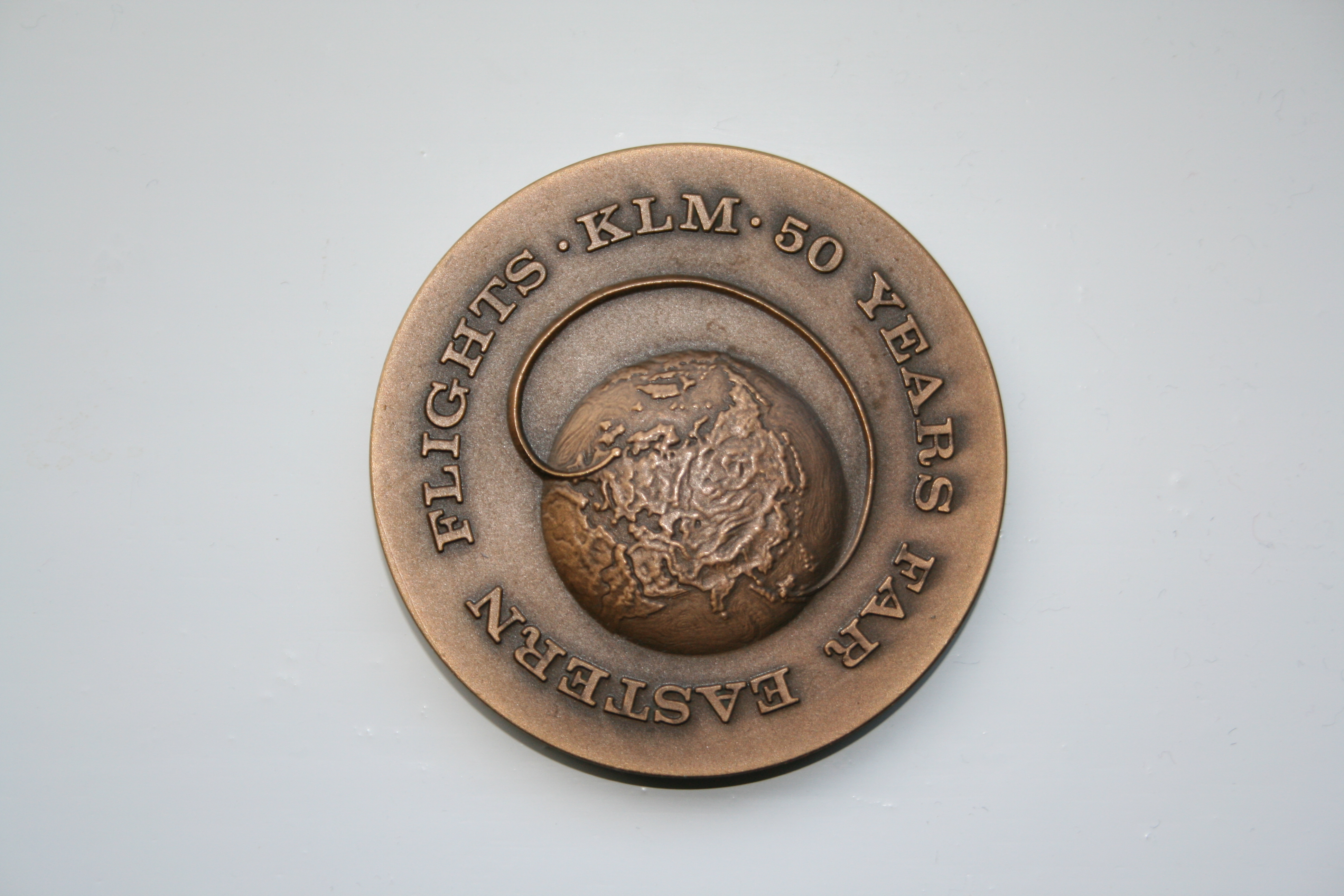 Medal 50 years since First flight KLM to Nederlands-Indië,1974